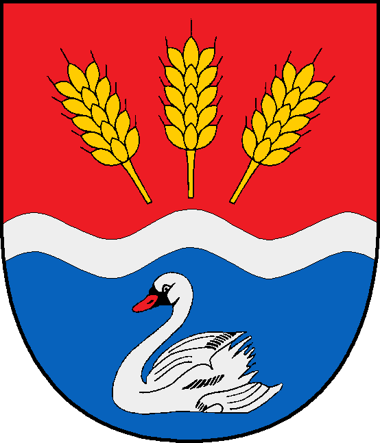 Coat of arms of the municipality Dörphof in Schleswig-Holstein, Germany.